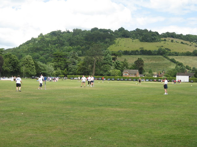 Smallfield Ladies Stoolball Team playing at Dorking, in the shadow of Box Hill